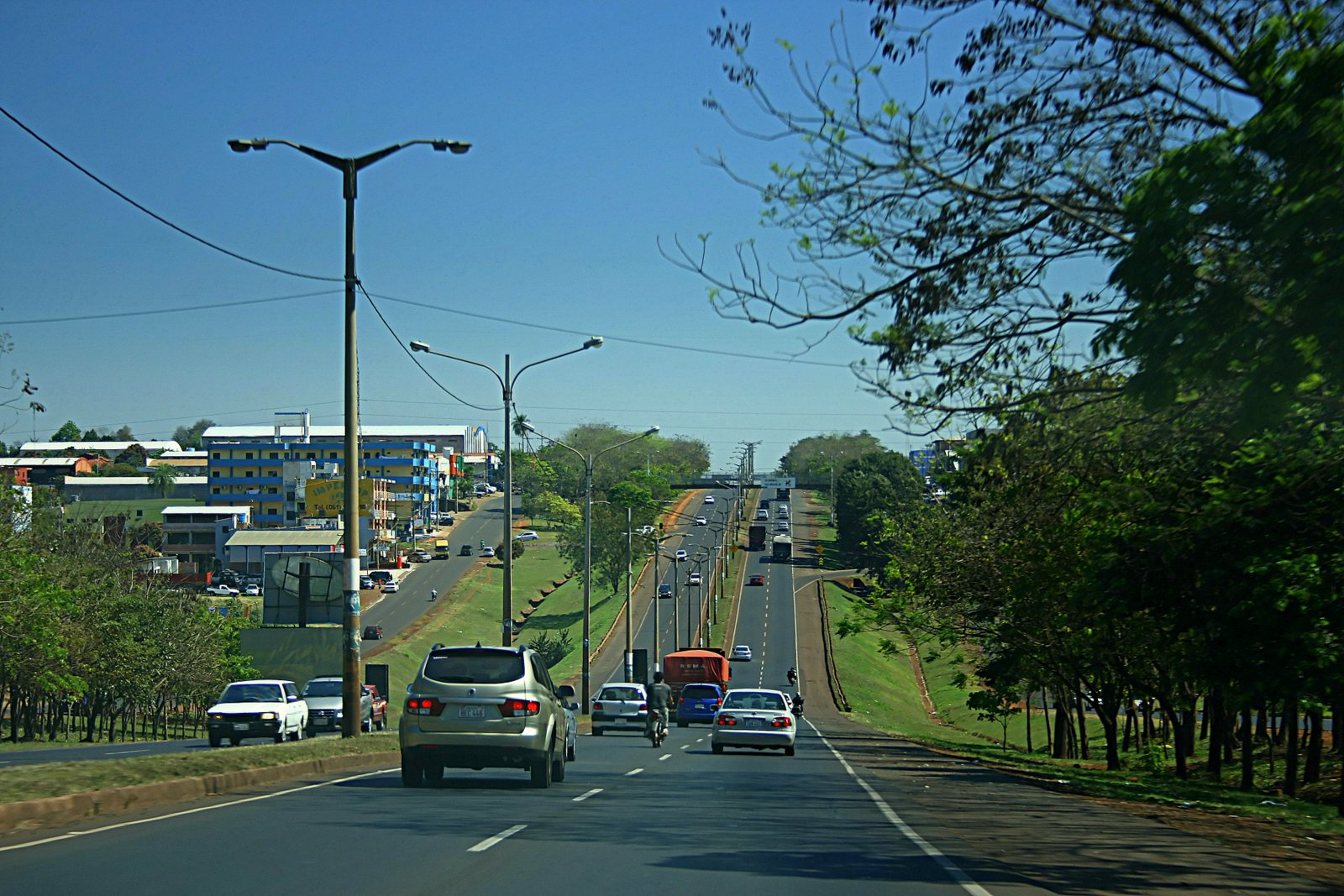 Tapé Porá highway at Km. 4 near Ciudad del Este.